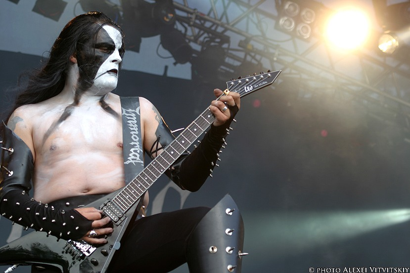 Abbath during the Immortal concert at the 2007 Tuska Open Air Metal Festival.